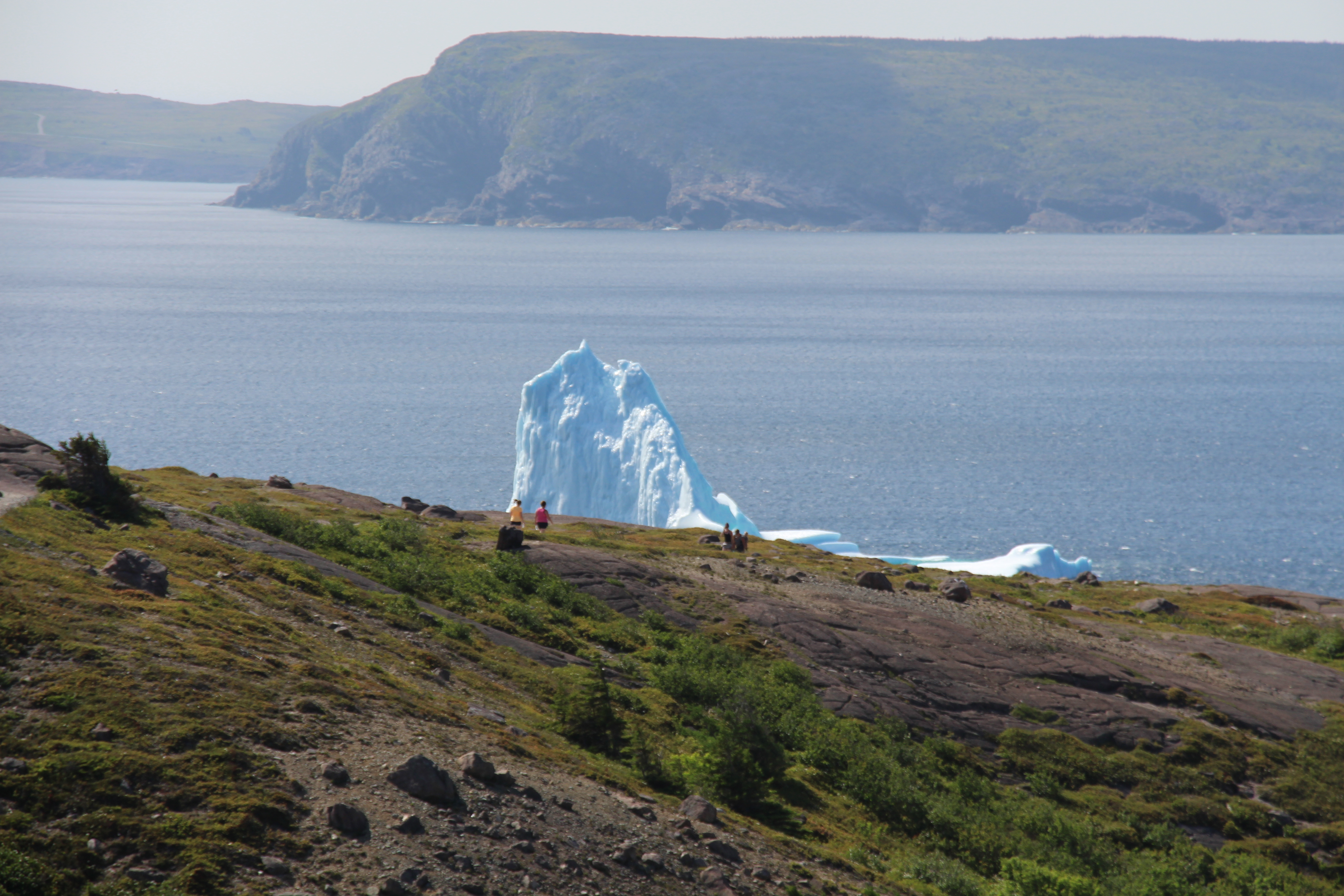 It looks like the iceberg is landing!